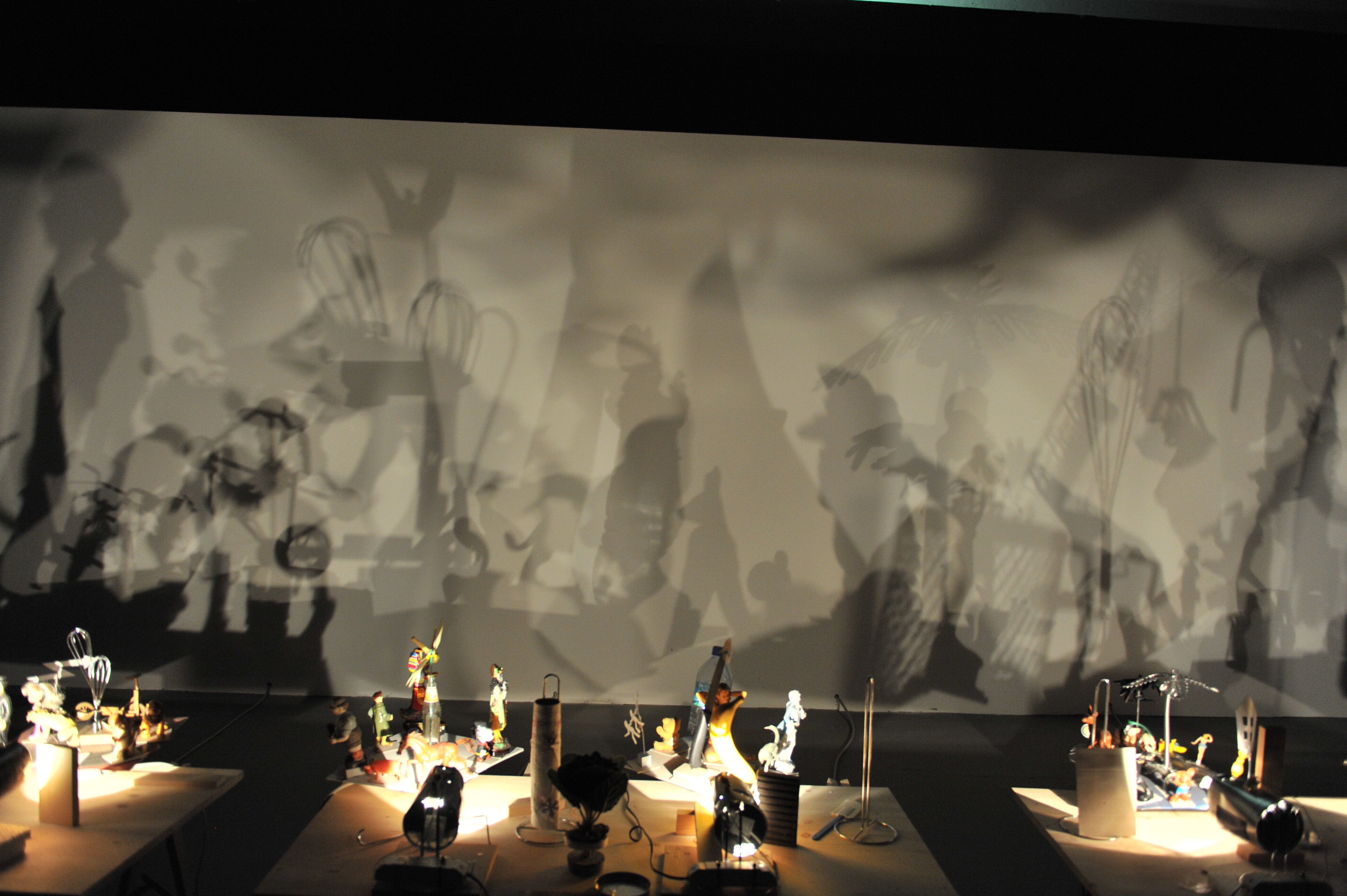 Hans-Peter Feldmann, Shadow Play, 2002-09